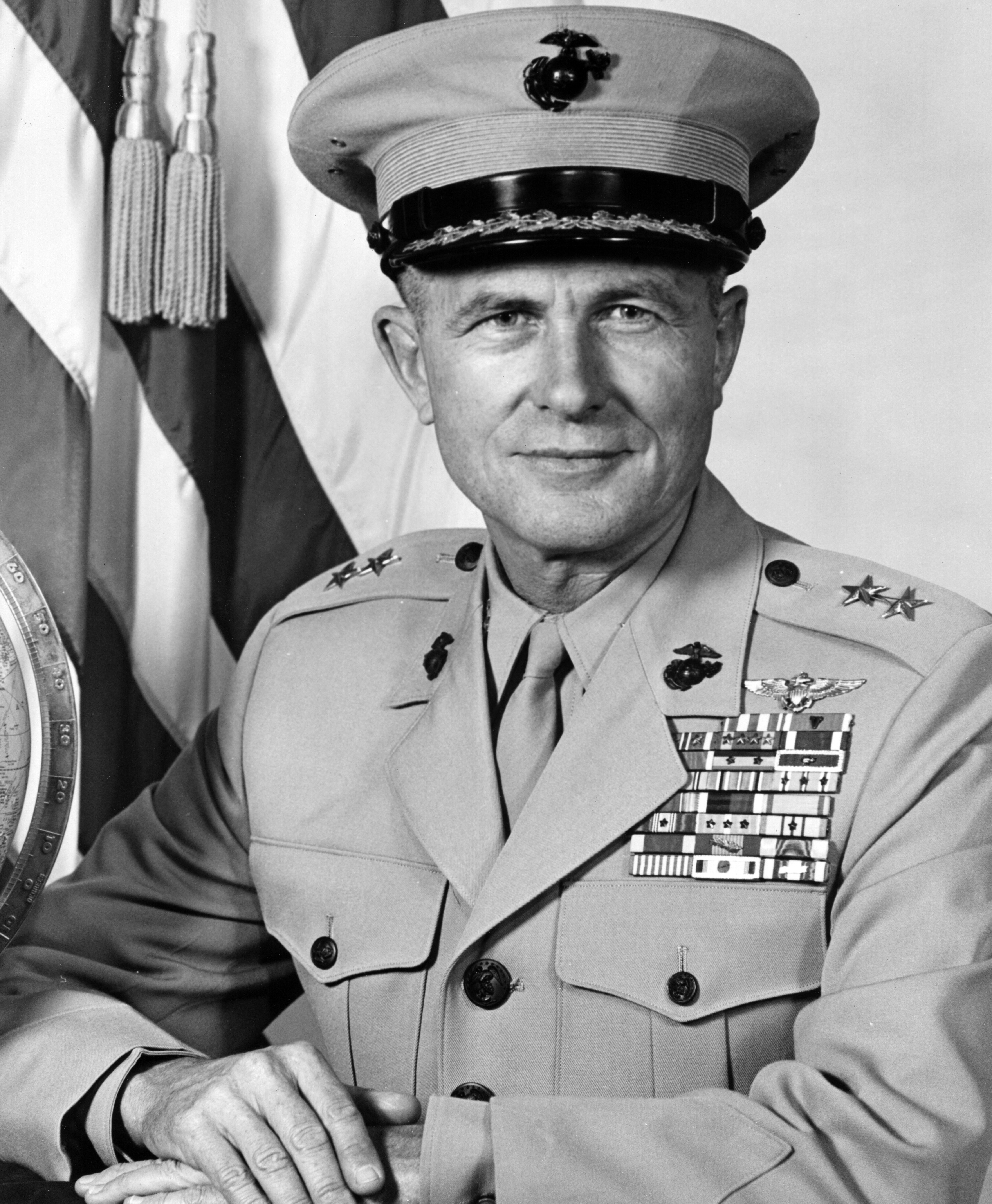 Robert Prescott Keller (February 9, 1920 - November 13, 2010) was a highly decorated Naval aviator in the United States Marine Corps with the rank of Lieutenant general. He began his career as reserve pilot during World War II, when shot down one enemy aircraft and damaged two others during New Britain campaign. Keller distinguished himself again as Pilot during Korean War and later reached general's rank during Vietnam War.